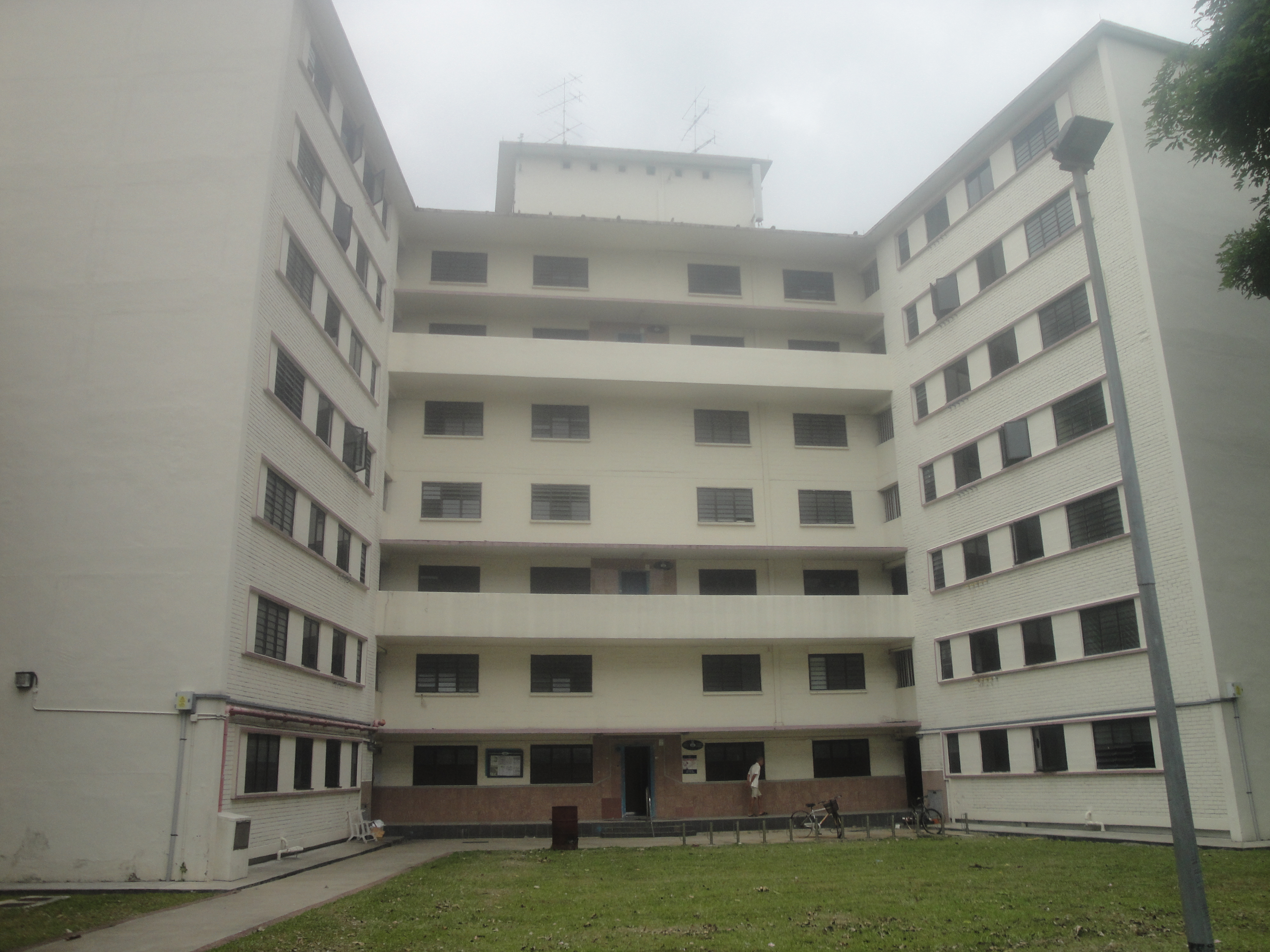 Butterfly blocks